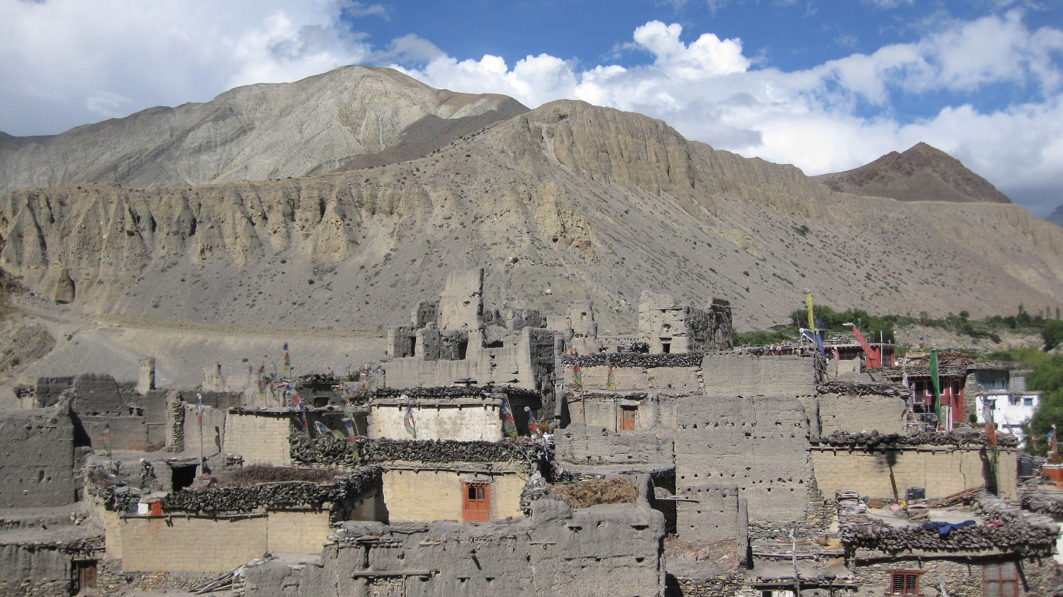 Mud houses in Kagbeni Village, Nepal. (take from Kag Chode Thupten Samphelling Monastery)